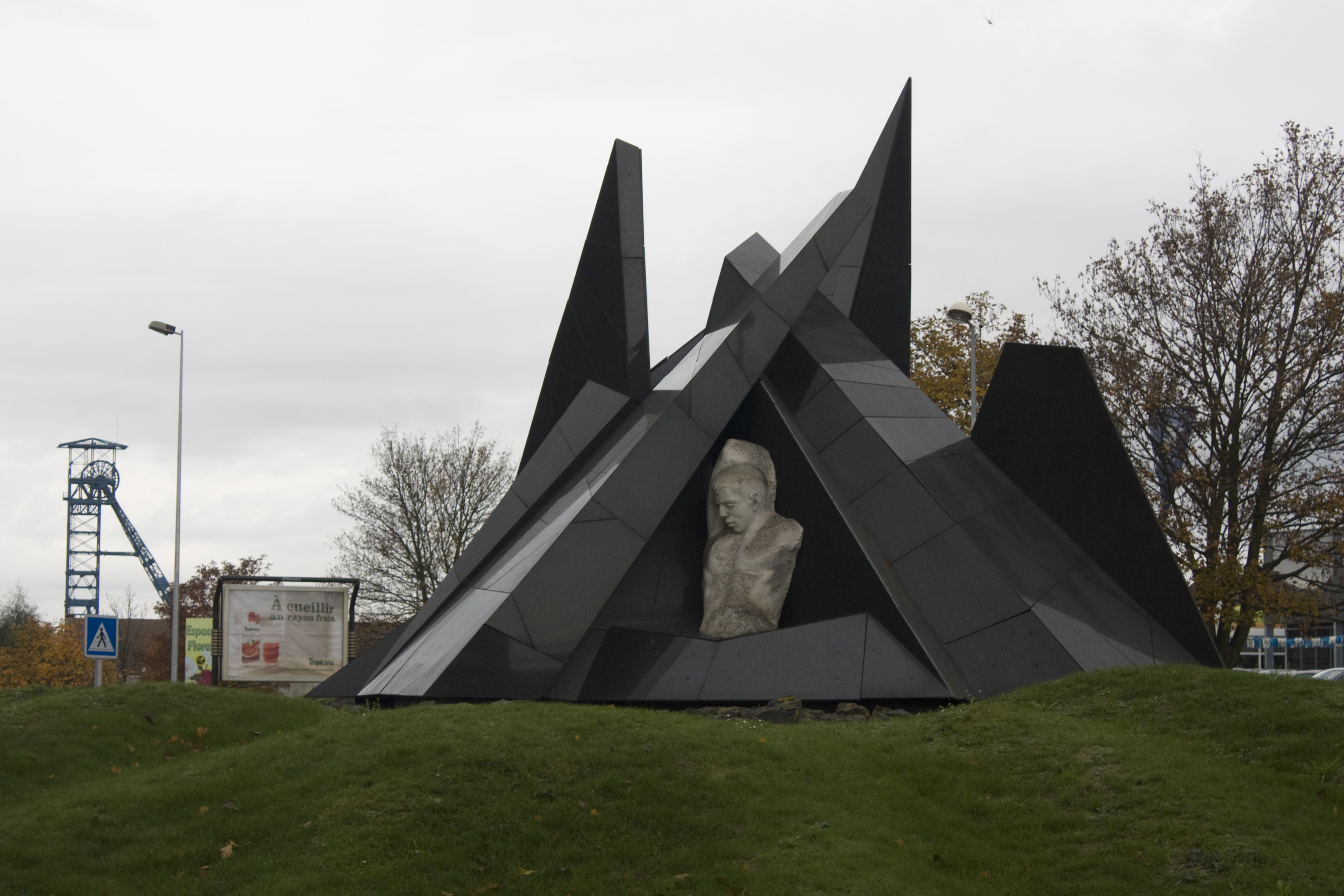 Miners monument.